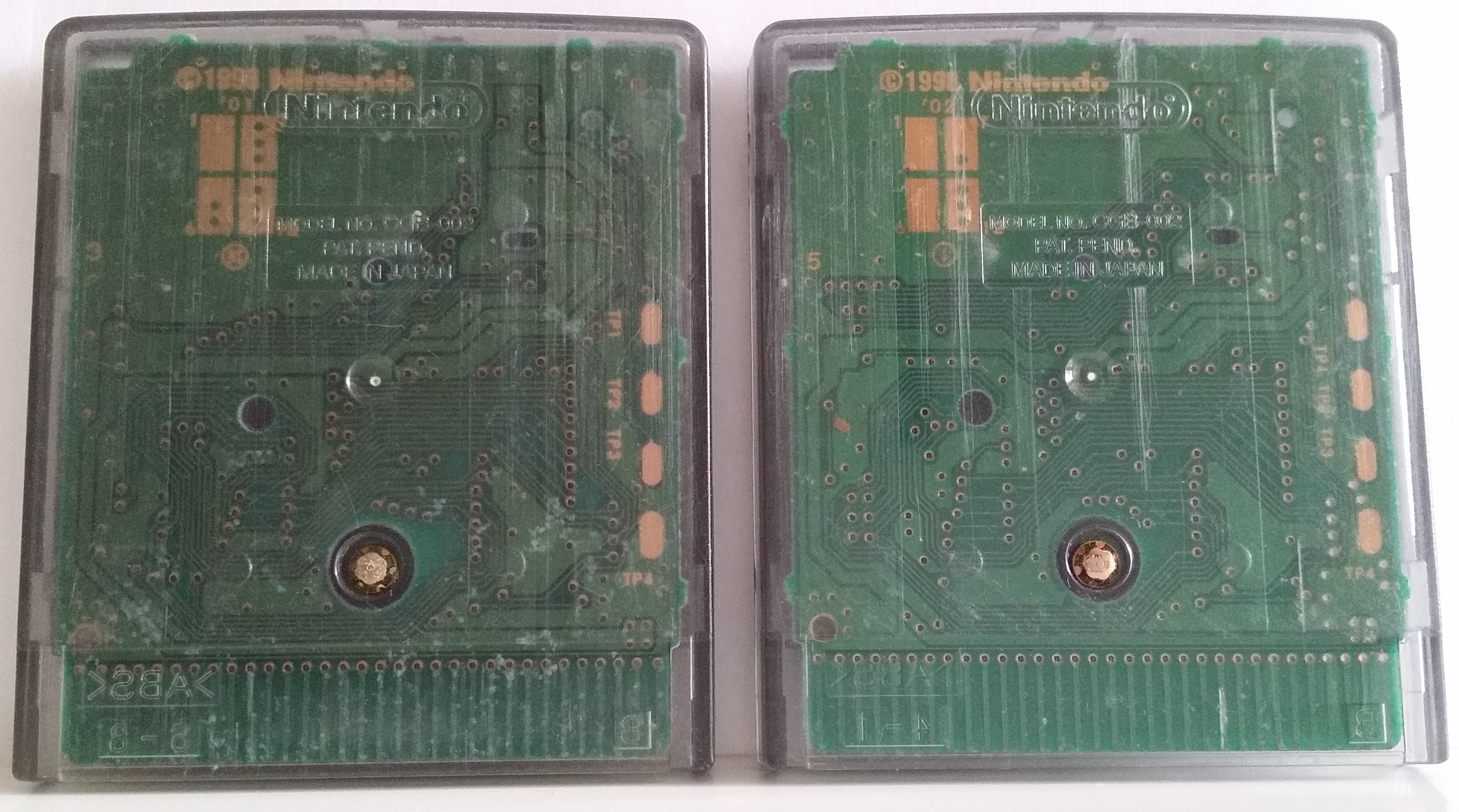 The cartridge back of the European (PAL) copies of the Game Boy Color video games The Legend of Zelda: Oracle of Seasons and Oracle of Ages. Oracle of Seasons is to the left and Oracle of Ages is to the right.